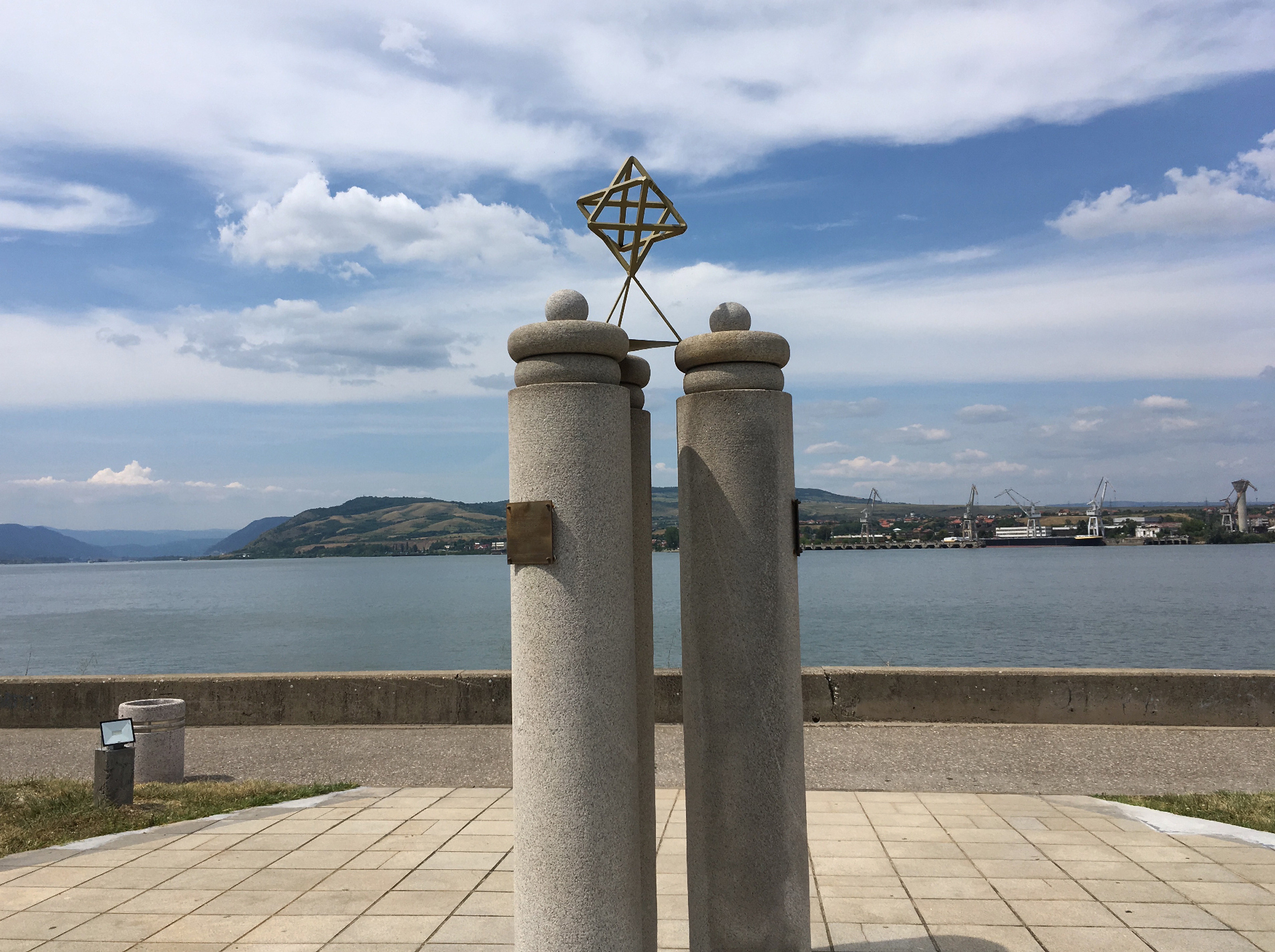 Kladovo transport monument, dedicated to Jewish victims persecuted and killed by Nazis. Jews used the port in Kladovo as the only free port on their way to Israel, from January to September 1940. The monument was erected in 2002.